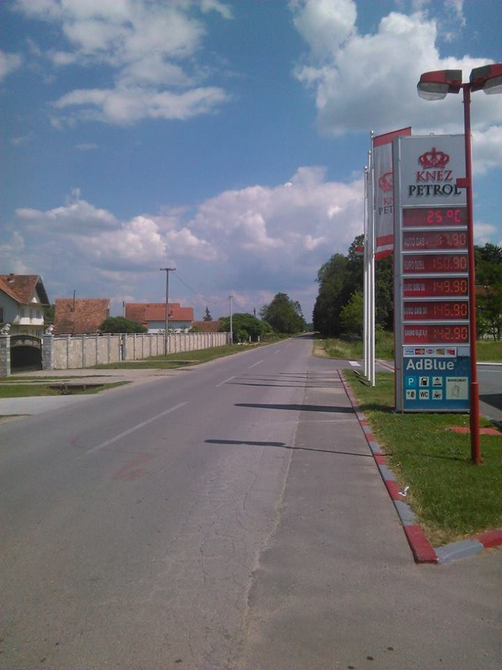 Street in village